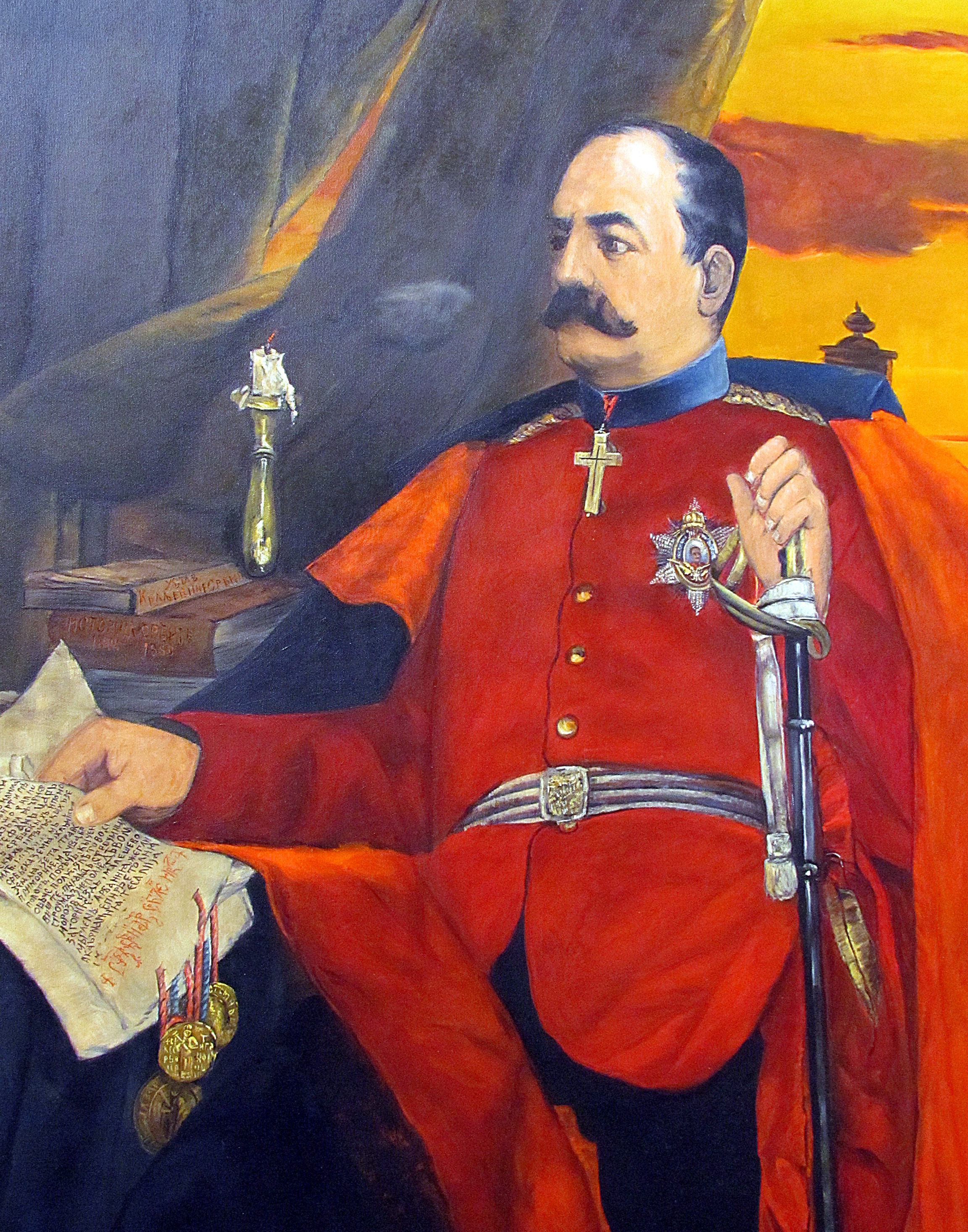 A representative portrait of King Milan of Serbia, painted by Đorđe Krstić in 1902.